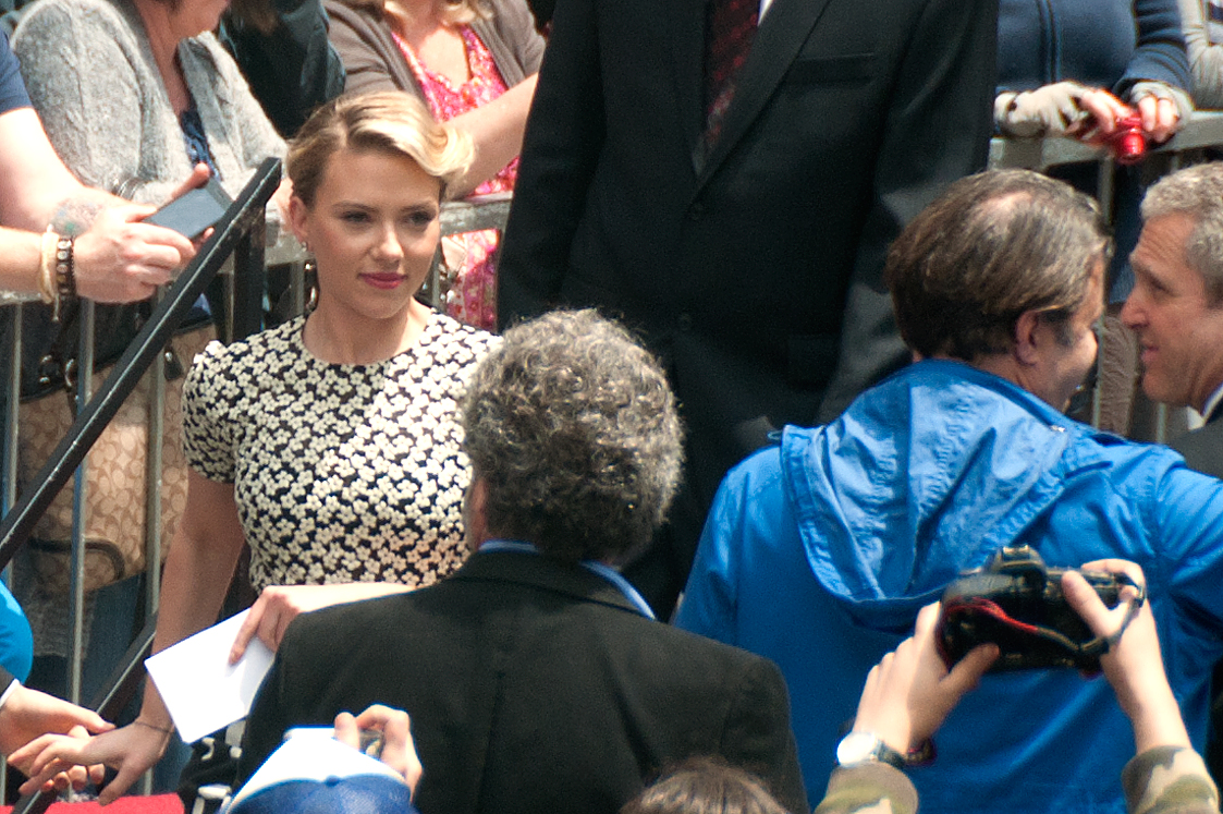 Scarlett Johansson revealing her star on the Hollywood Walk of Fame on May 2, 2012.